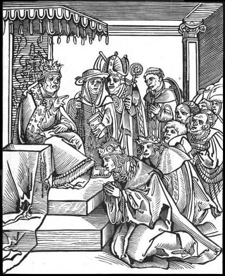 By Lucas Cranach the Elder. It is a woodcut of people kissing the pope's feet, from Passionary of the Christ and Antichrist